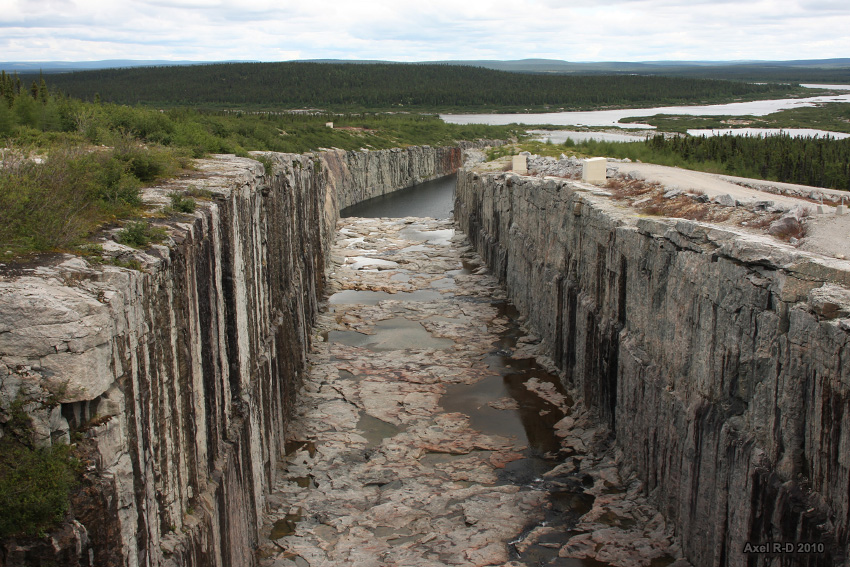 The Caniapiscau Spillway tailrace.